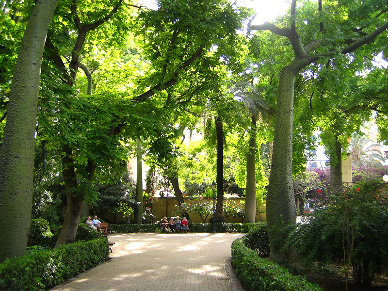 Aiora Mansion Park — in Valencia, Spain.